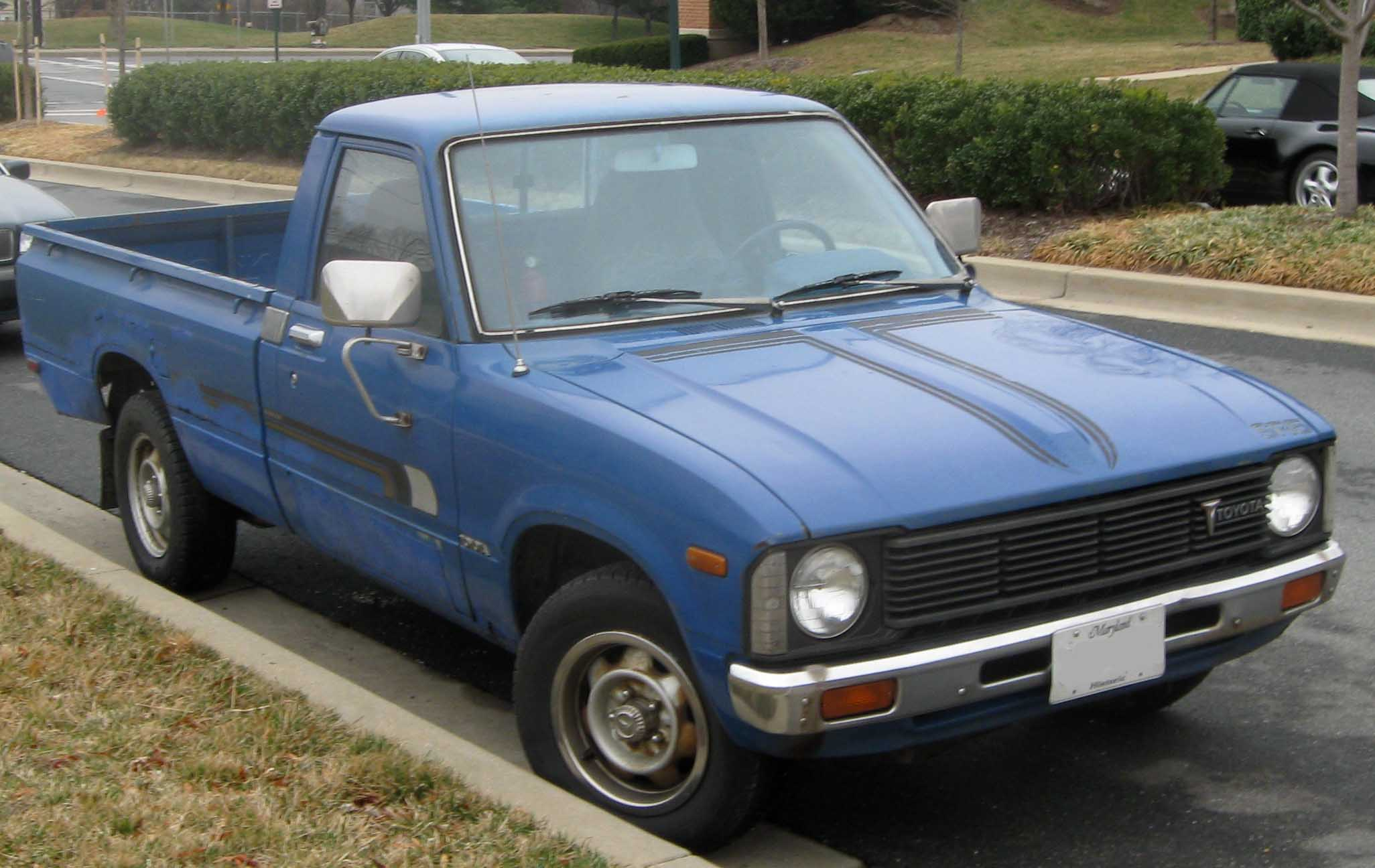 1979-1983 Toyota Pickup photographed in Rockville, Maryland, USA.